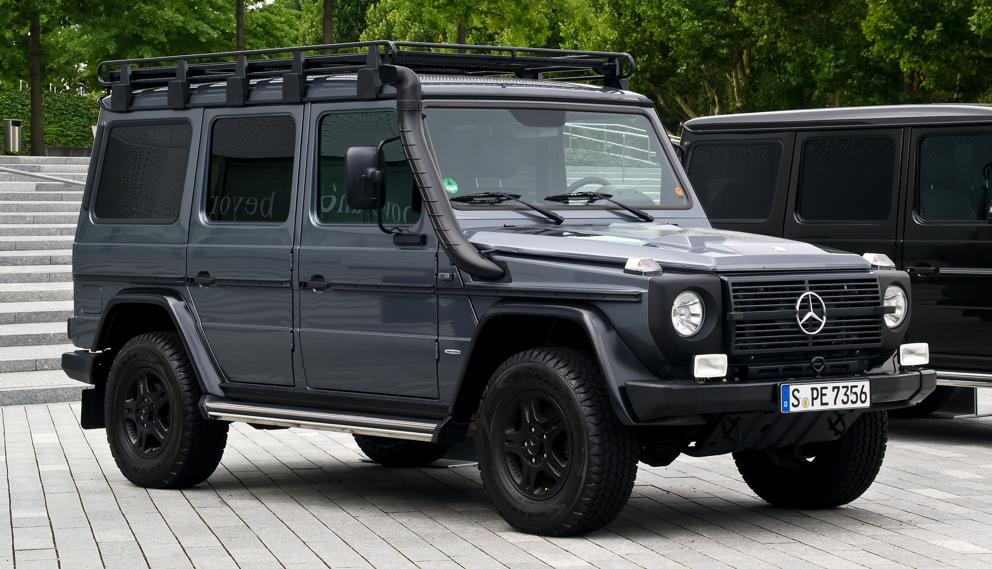 Mercedes-Benz G 300 CDI Professional (W 461)